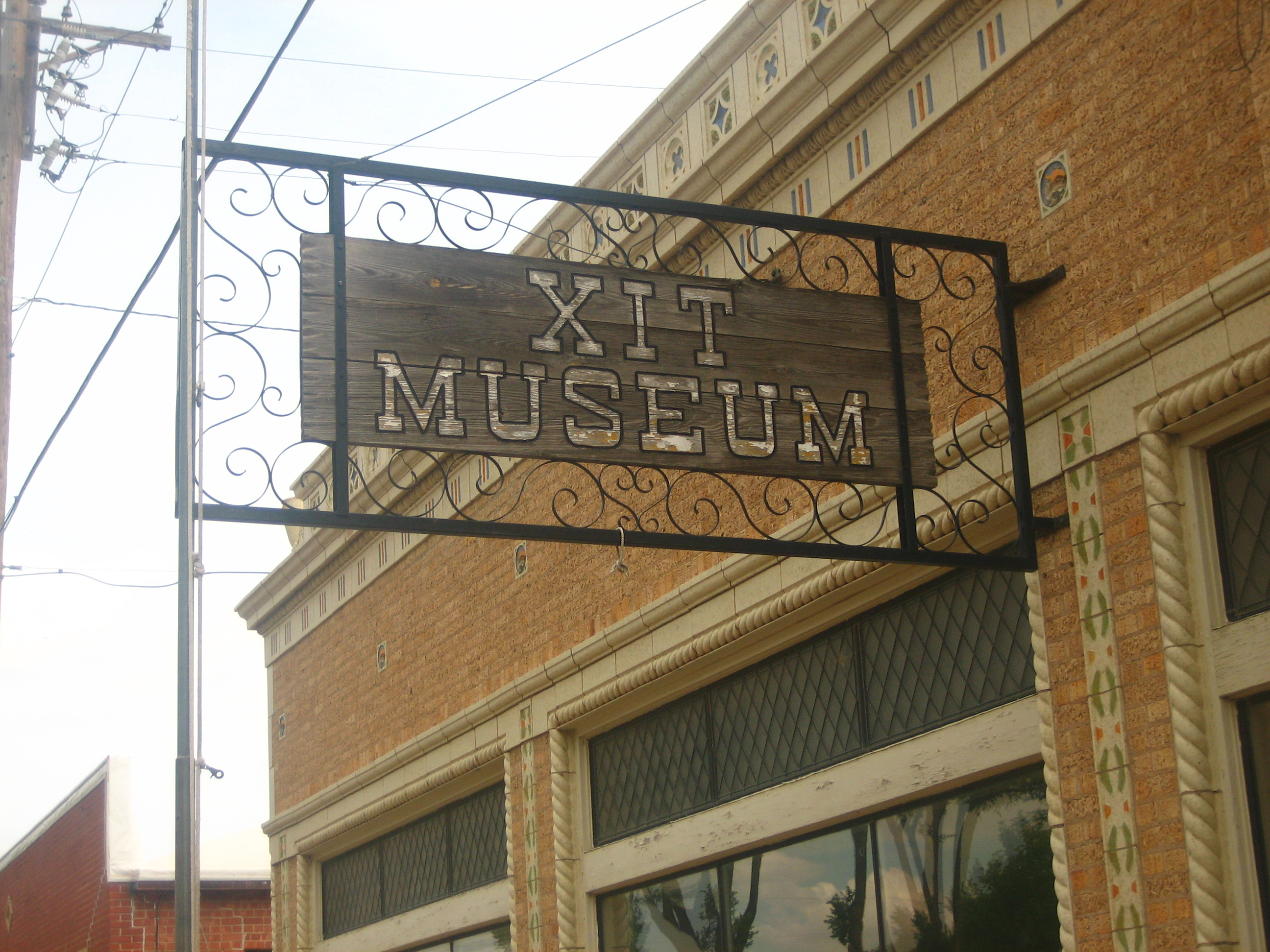 I took photo on July 14, 2008.Billy Hathorn (talk) 02:09, 18 September 2008 (UTC)